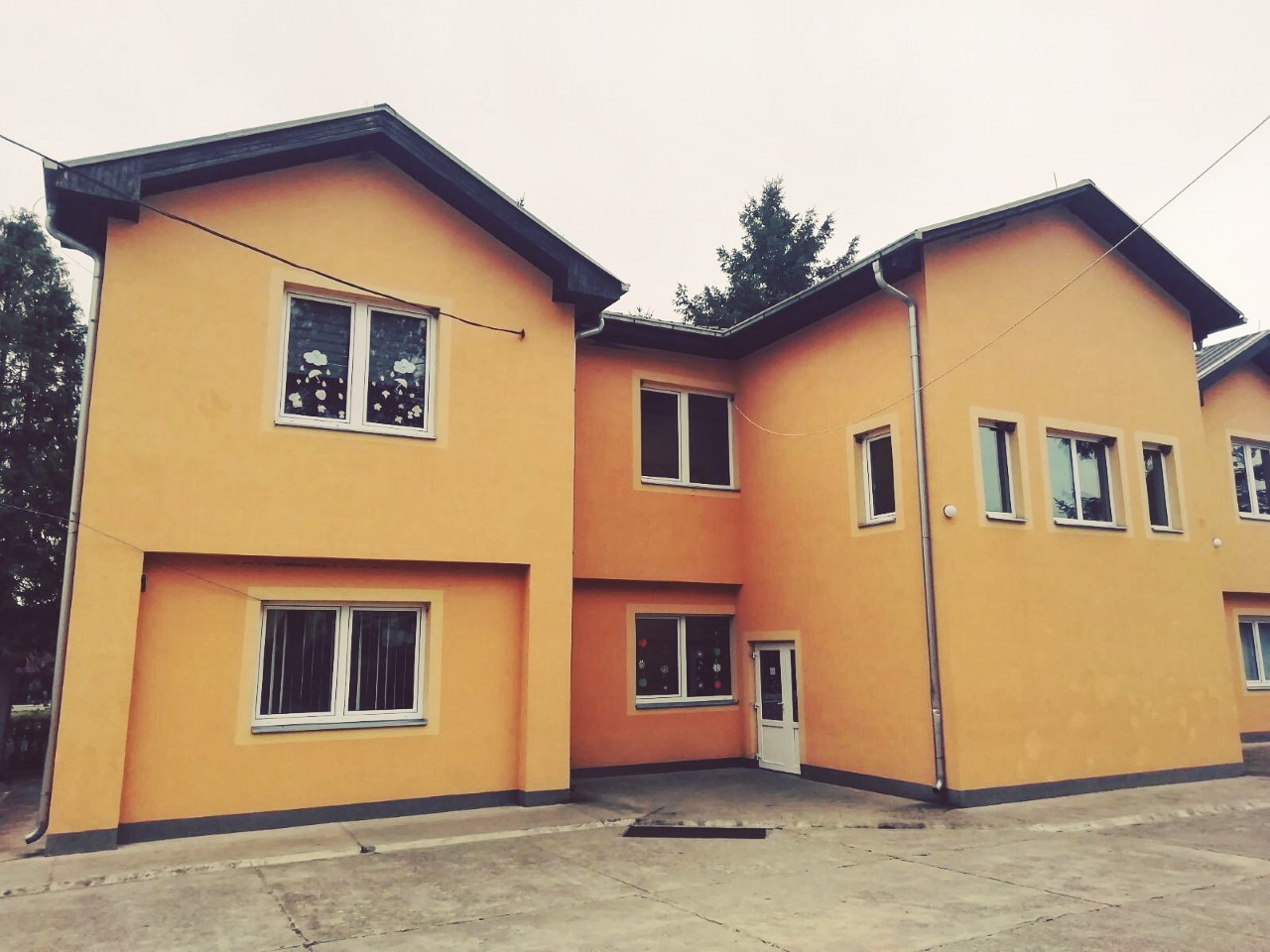 Primary school "Sveti Sava" Badnjevac